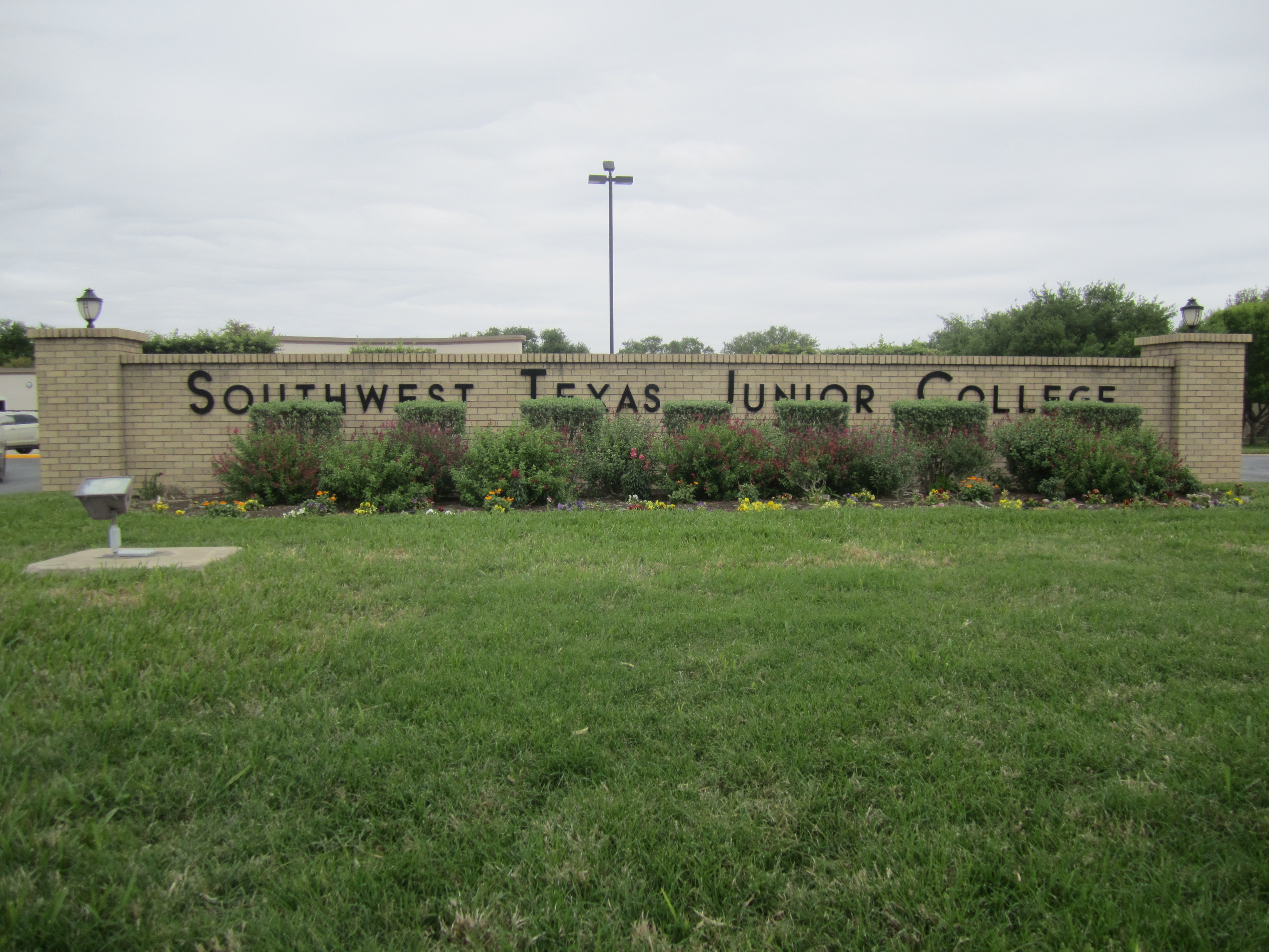 Entrance sign of the Southwest Texas Junior College Uvalde Campus